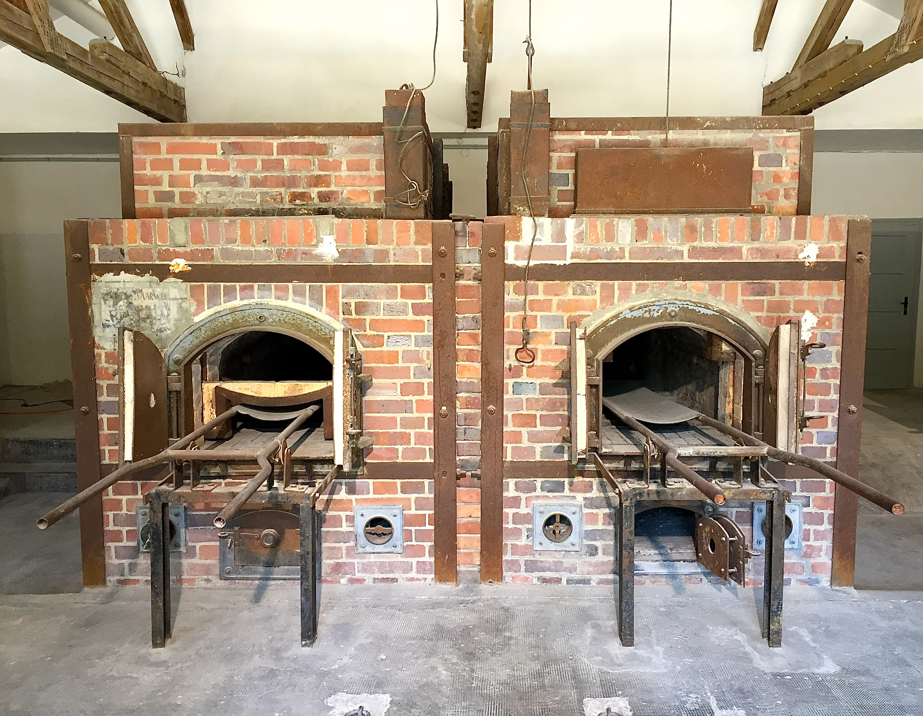 The Dachau concentration camp was the first large-scale concentration camp of the SS in Nazi Germany. It was located east of the southern German city of Dachau, about 20 km northwest of Munich.